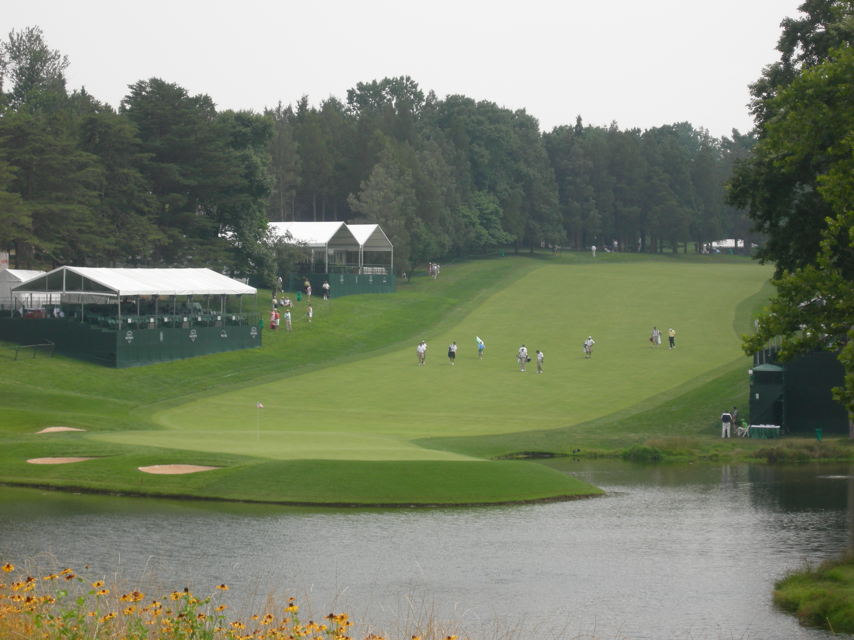 The 18th hole of the Congressional Country Club's Blue Course during the 2007 AT&T National tournament. This was the 17th hole during the 1997 U.S. Open, before the old 18th par 3 was replaced by the new 10th hole.